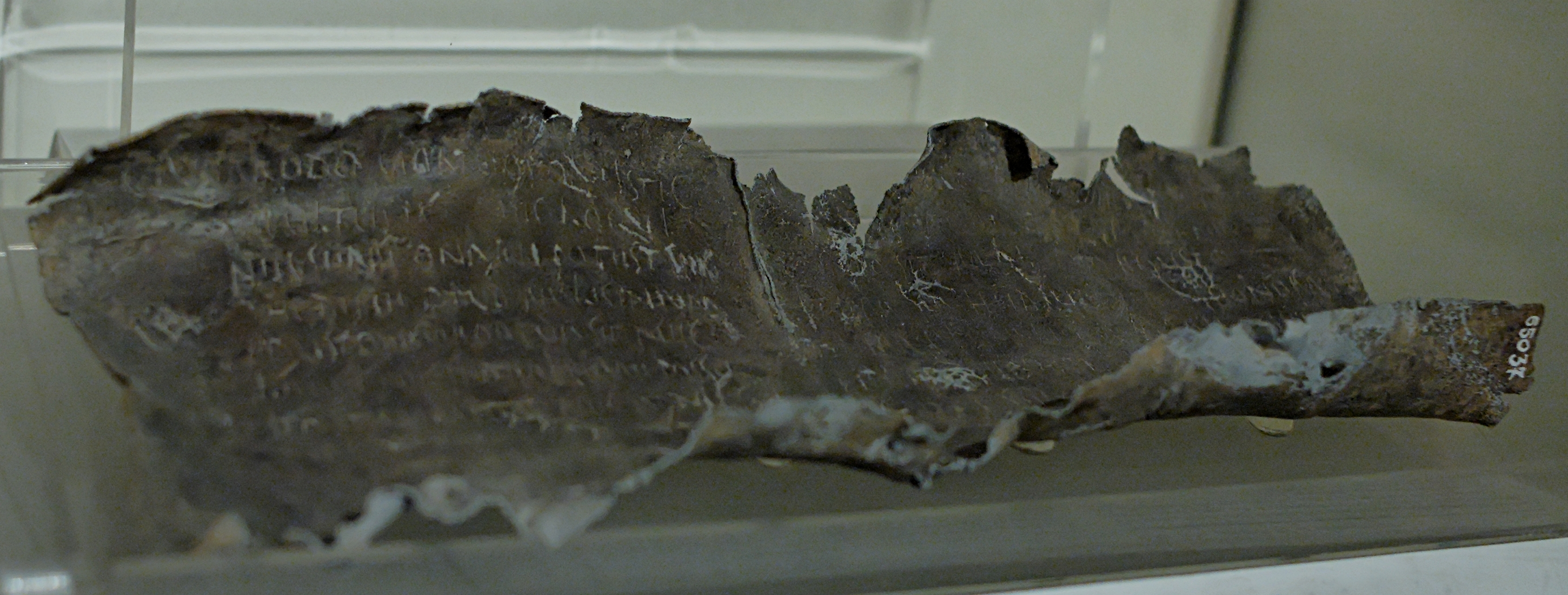 Defixio against Rhodinē. Latin inscription: “Just as the dead man who is buried here can neither speak nor talk, so may Rhodine die as far as Marcus Licinius Faustus is concerned and not be able to speak nor talk. As the dead man is received neither by gods nor humans, so may Rhodine be received by Marcus Licinius and have as much strength as the dead man who is buried here. Dis Pater, I entrust Rhodine to you, that she be always hateful to Marcus Licinius Faustus. Also Marcus Hedius Amphio. Also Gaius Popillius Apollonius. Also Vennonia Hermiona. Also Sergia Glycinna.” Found in the funerary area of the Via Latina, not far from Rome, late Republican Era.